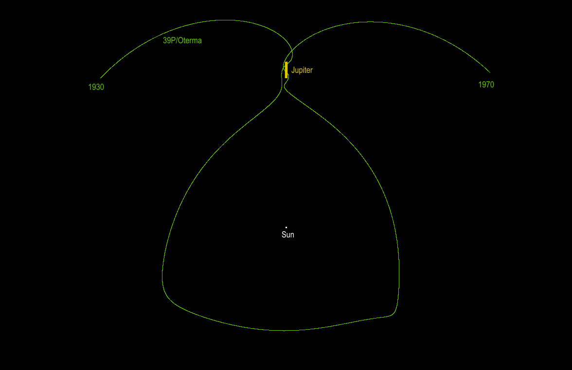 Orbit of 39P/Oterma 1930-1970 in a frame co-rotating with Jupiter